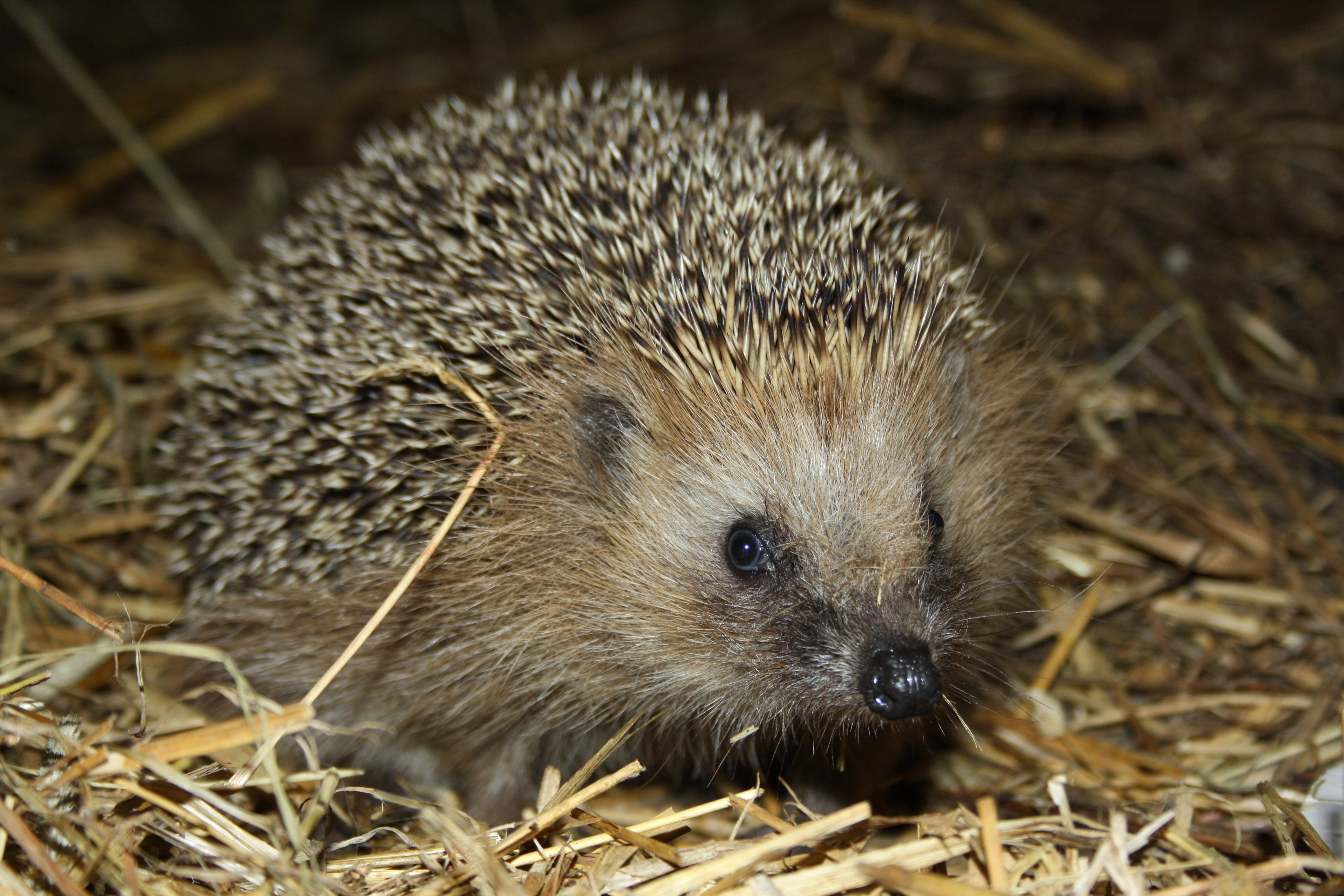 Estonia, Põlva County